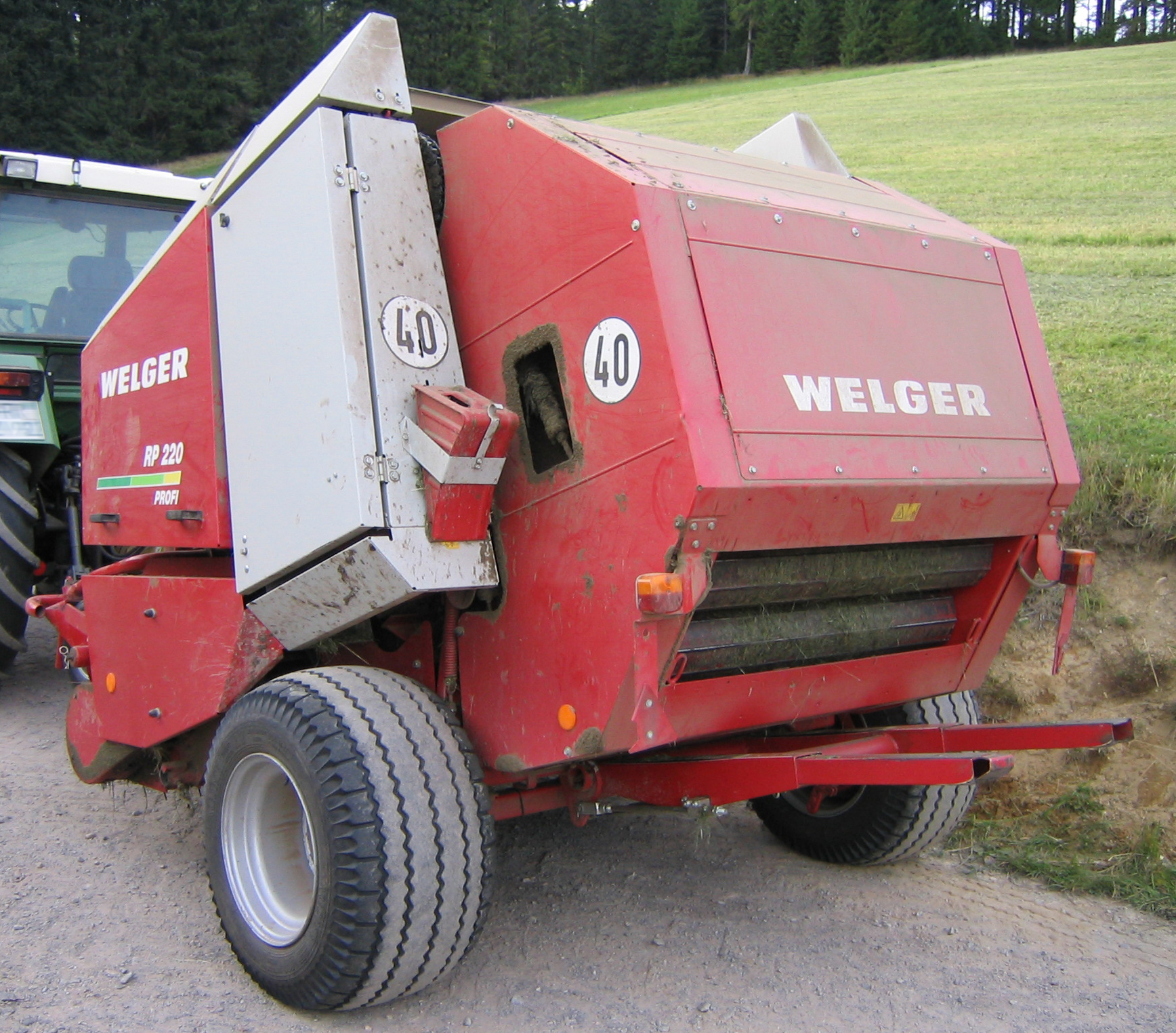 Round baler (Welger RP 220 Profi), backside